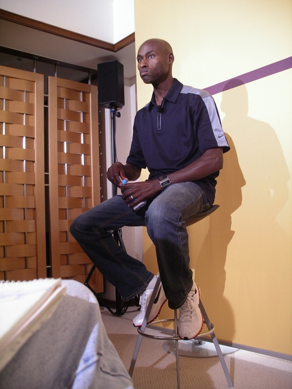 Bernard Lagat talks to reporters two days after his 1,500m world championships victory, and two days before the 5,000m final. If he looks funny, it's because he has a mouthful of water.